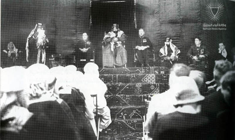 This photograph shows the coronation of Hamad bin Isa Al Khalifa as the Hakim of Bahrain in February 1933.